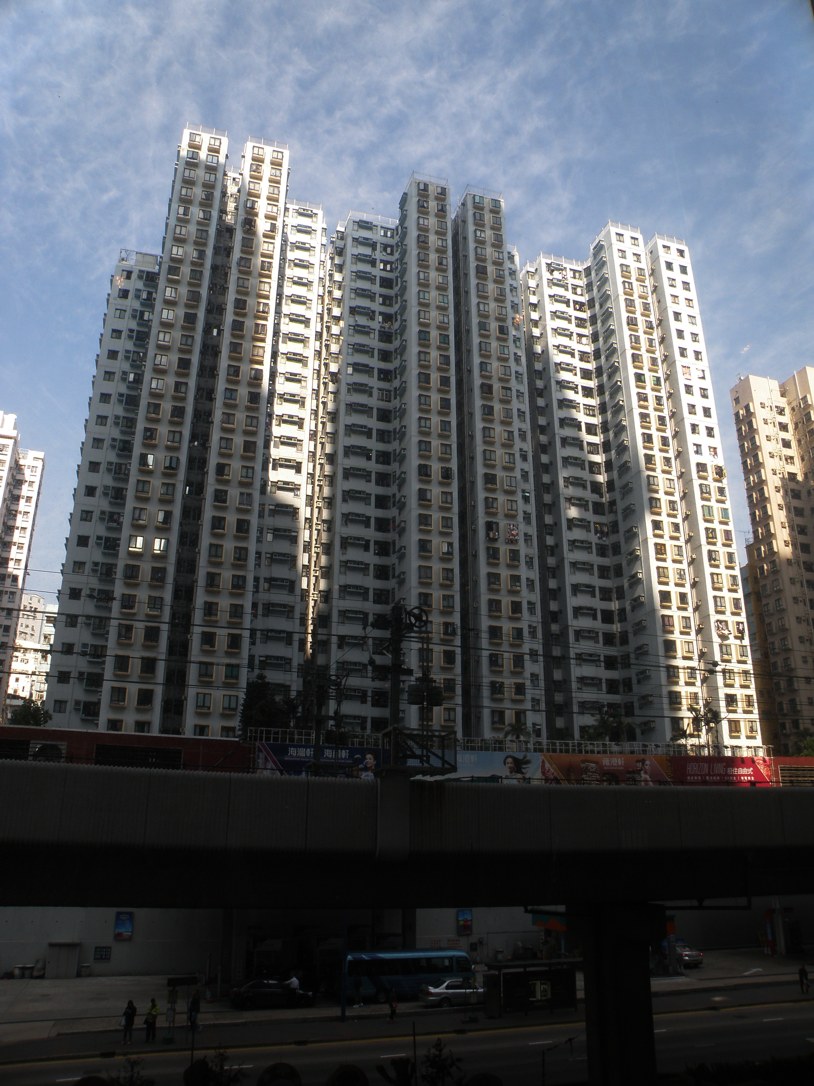 Yue Man Centre in Ngau Tau Kok, Hong Kong.